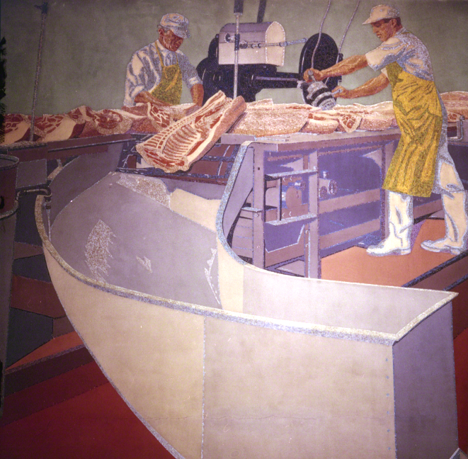 Part of the Winold Reiss industrial murals. No evidence of copyright notices, and not found in subsequent catalogs.